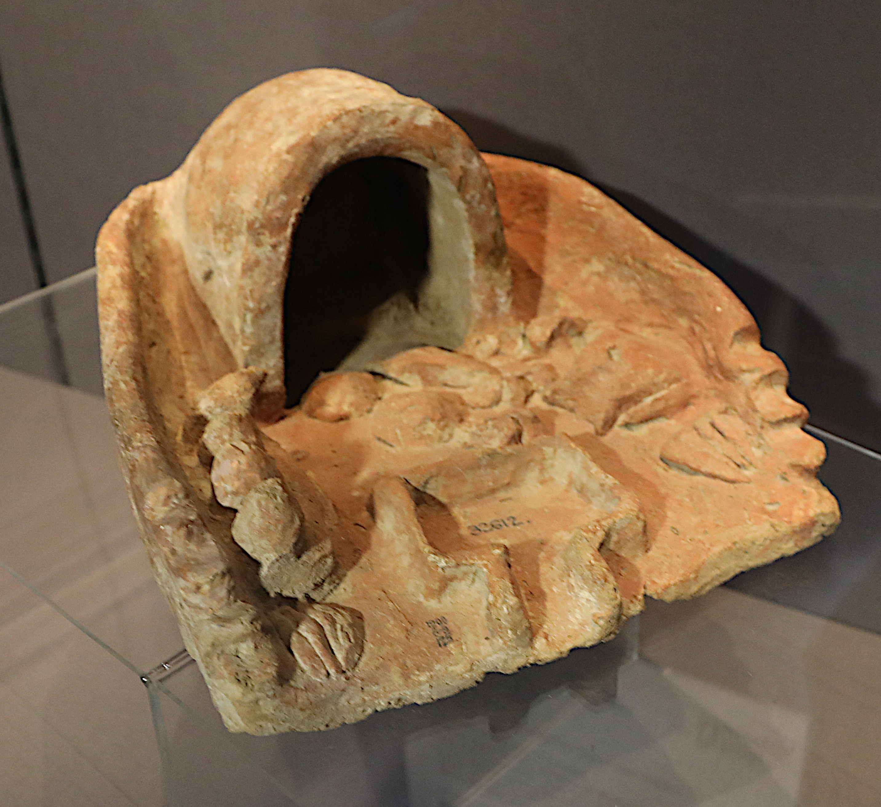 Photo of a soul house